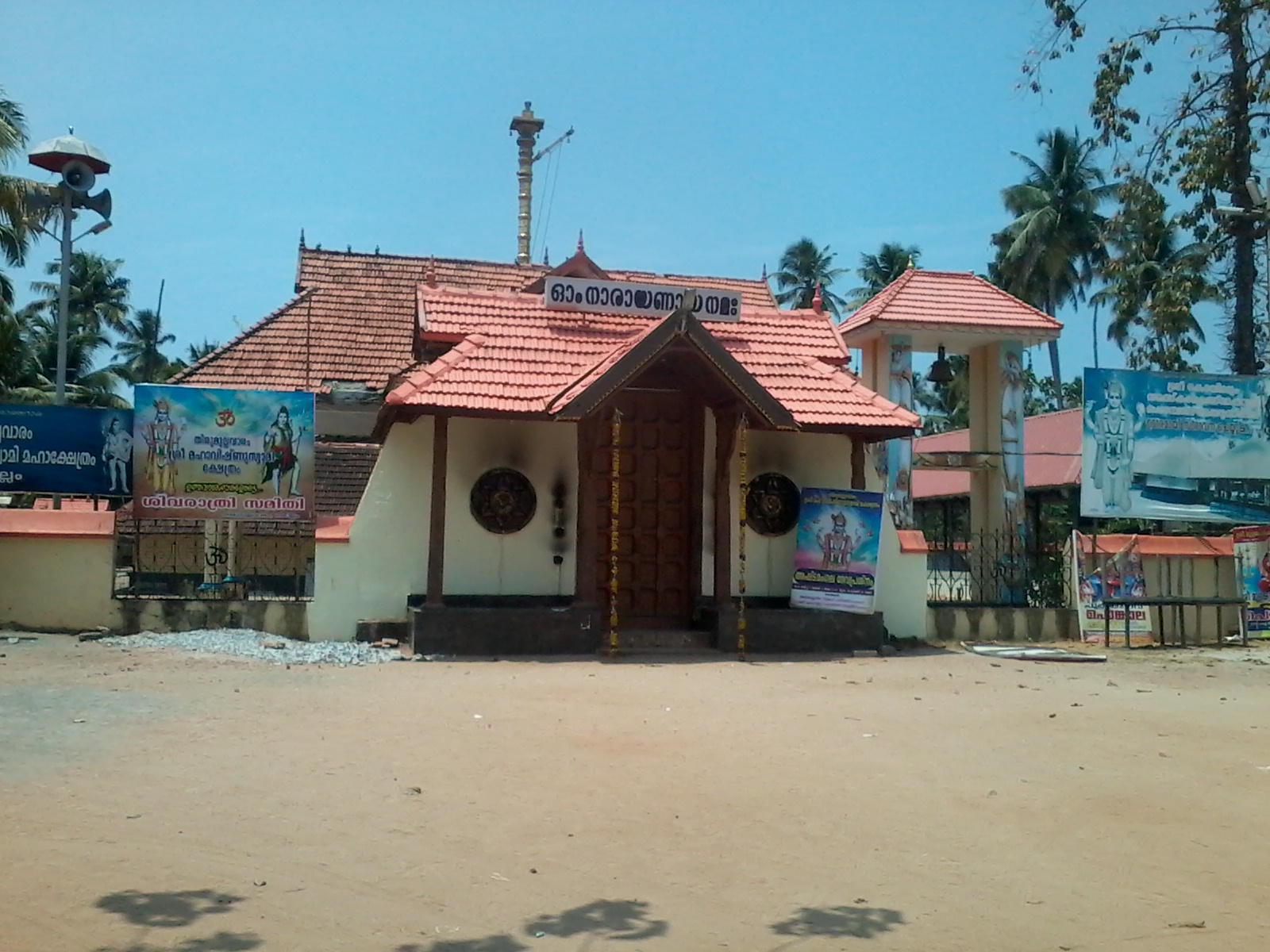 Thirumullavaram temple (Malayalam:തിരുമുല്ലവാരം ക്ഷേത്രം) is dedicated to Maha Vishnu and is located at Thirumullavaram near the beach in Kollam district of Kerala in India. The Karkkidaku Vavu bali is famous.